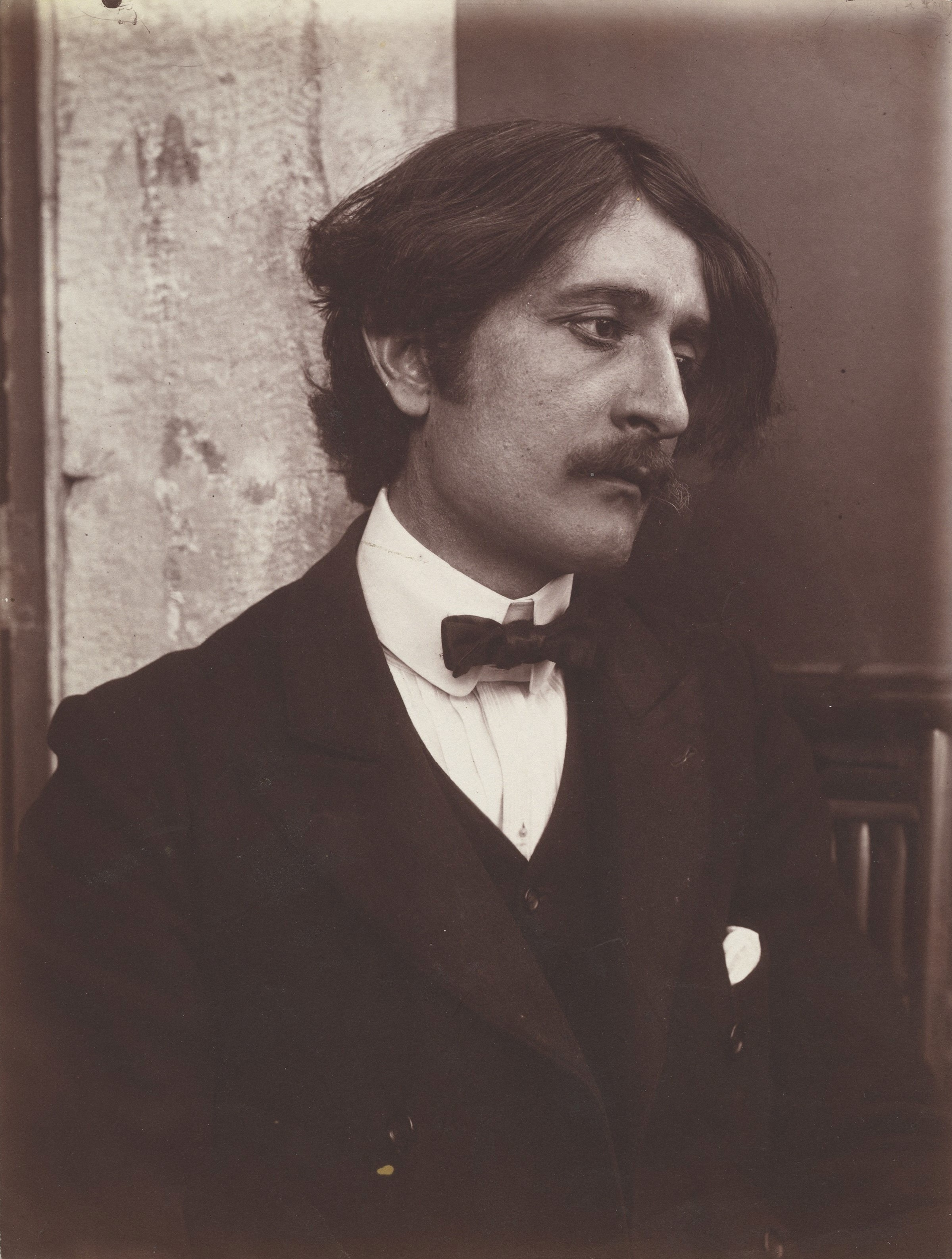 Wilhelm von Gloeden (1856-1931), Portrait of a gentleman (circa 1890). Catalogue number: 2415. This portrait was first recognised as showing Gloeden's cousin, the photographer Wilhelm von Plüschow (1852-1930) in 1997, in the antiquarian catalogue # 5 by Serge Planteux, item # 193, and since accepted. However, The Metropolitan Museum in New York published online another portrait of the same sitter playing a mandolin, inscribed on the reverse with a dedication calling him "Mico Lo Giudice-Berbiredolu ("Barbiredolu" clearly comes from a misreading of an handwritten "du" as "olu"), the magician of mandolin". Mario Bolognari, who wrote I ragazzi di von Gloeden. Poetiche omosessuali e rappresentazioni dell'erotismo siciliano tra Ottocento e Novecento (Reggio Calabria, 2012) recognized him as Domenico (called "Mico") Lo Giudice (1871-1942), dubbed "Barbareddu" ("The little barbarian") or "Barbireddu" ("the little barber"), a nickname his grand-grand-children in Taormina still bear today. Since this is a really existing person, this identification should be considered the most likely one, since no-one would mis-give a picture of a famous sitter for the one of an unkwnown one, whereas the reverse is easier. The sitter also appears in the historical picture published in the website of Hotel Schuler in Taormina, here.